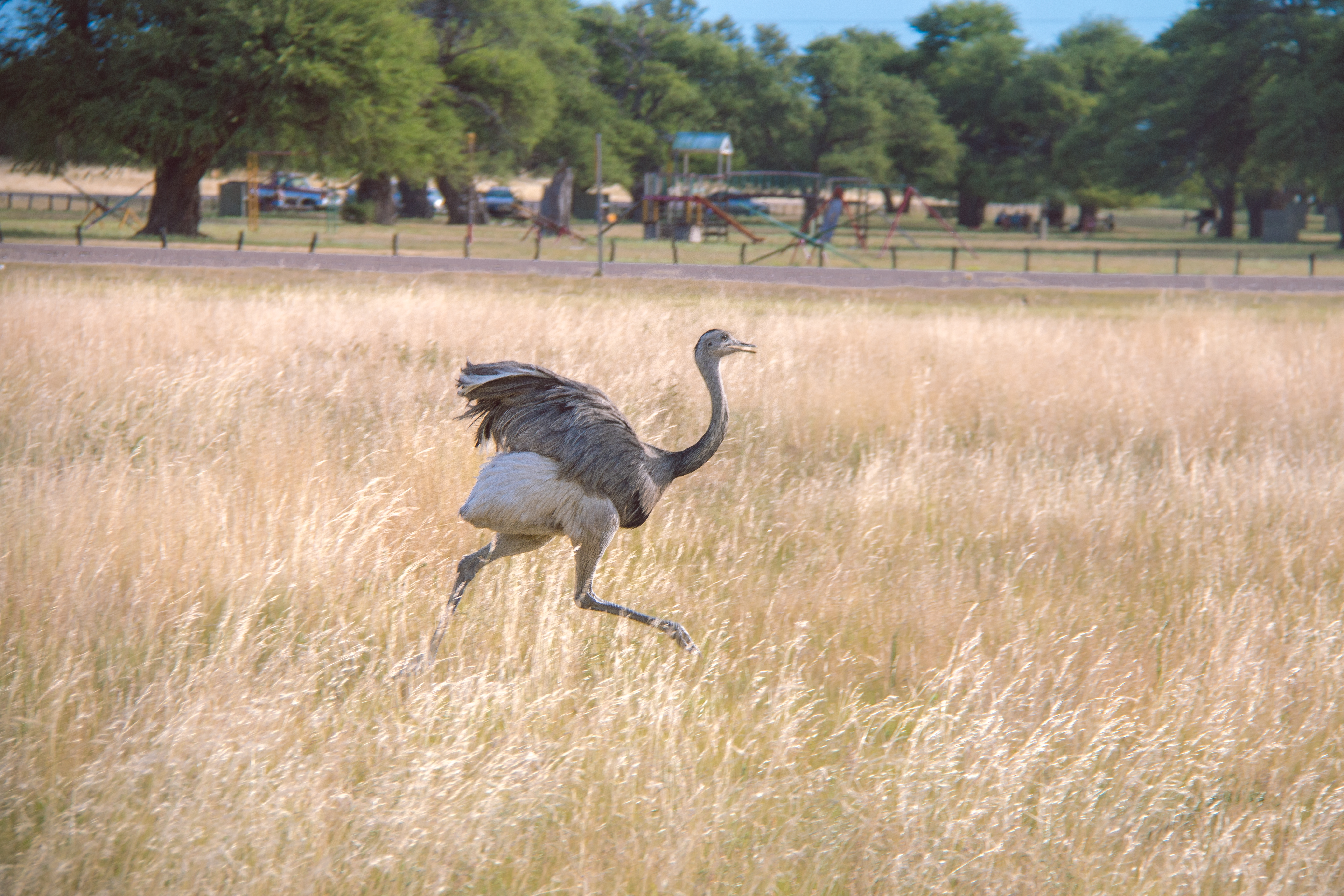 A rhea (nandu) running at the Parque Luro, Argentina